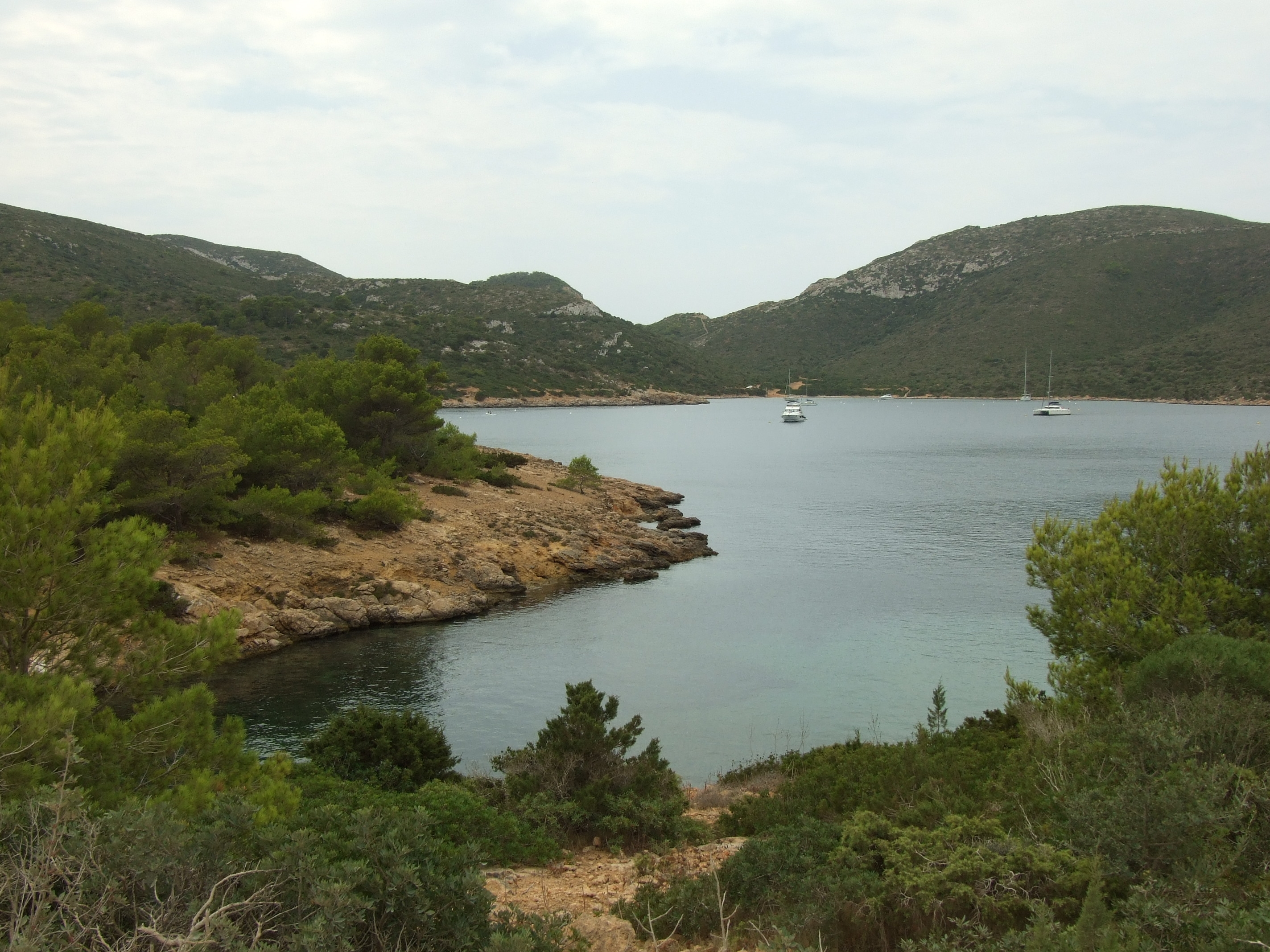 Cabrera